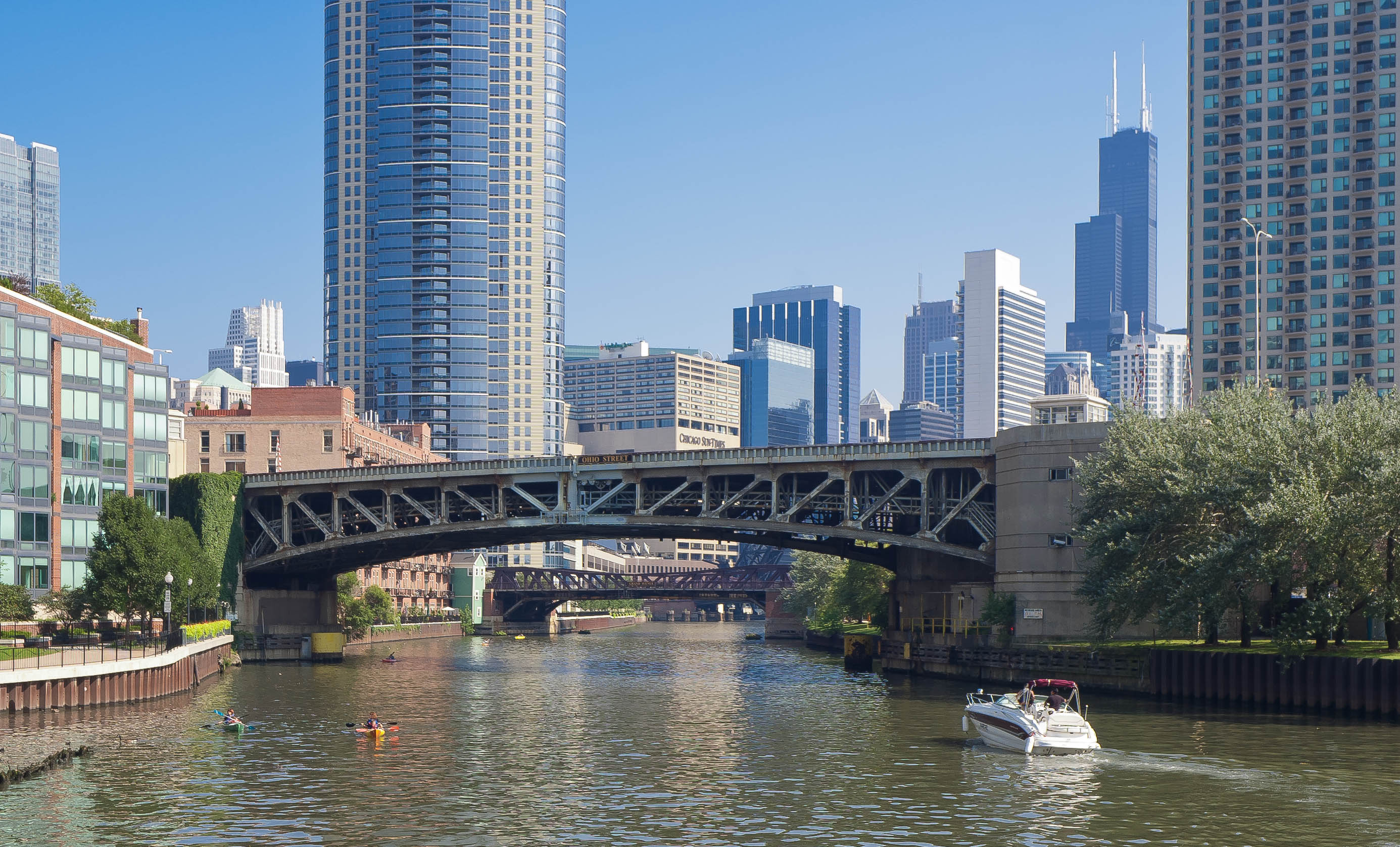 The North Branch of the Chicago River at Ohio Street. The Ohio Street Bridge, a 1961 bascule bridge, is closest. The Grand Avenue Bridge is visible in the distance.